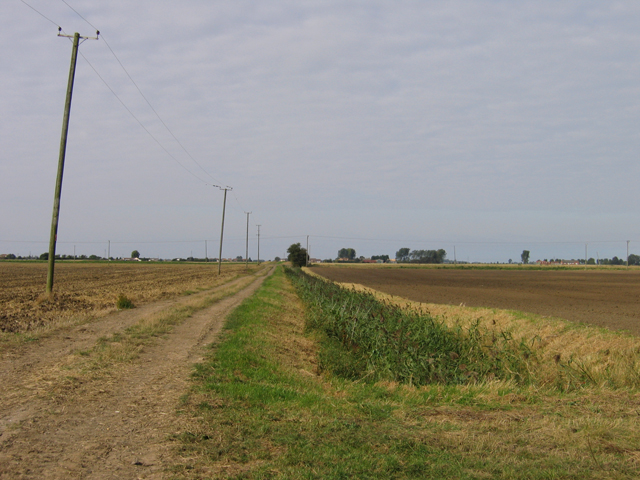 View north along the former railway track bed of Turves-Benwick goods branch, Whittlesey, Cambridgeshire.